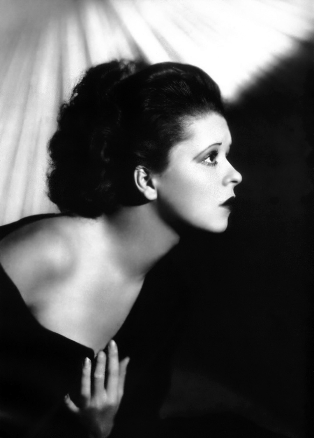 American actress Clara Bow in a 1927 promotional photo.